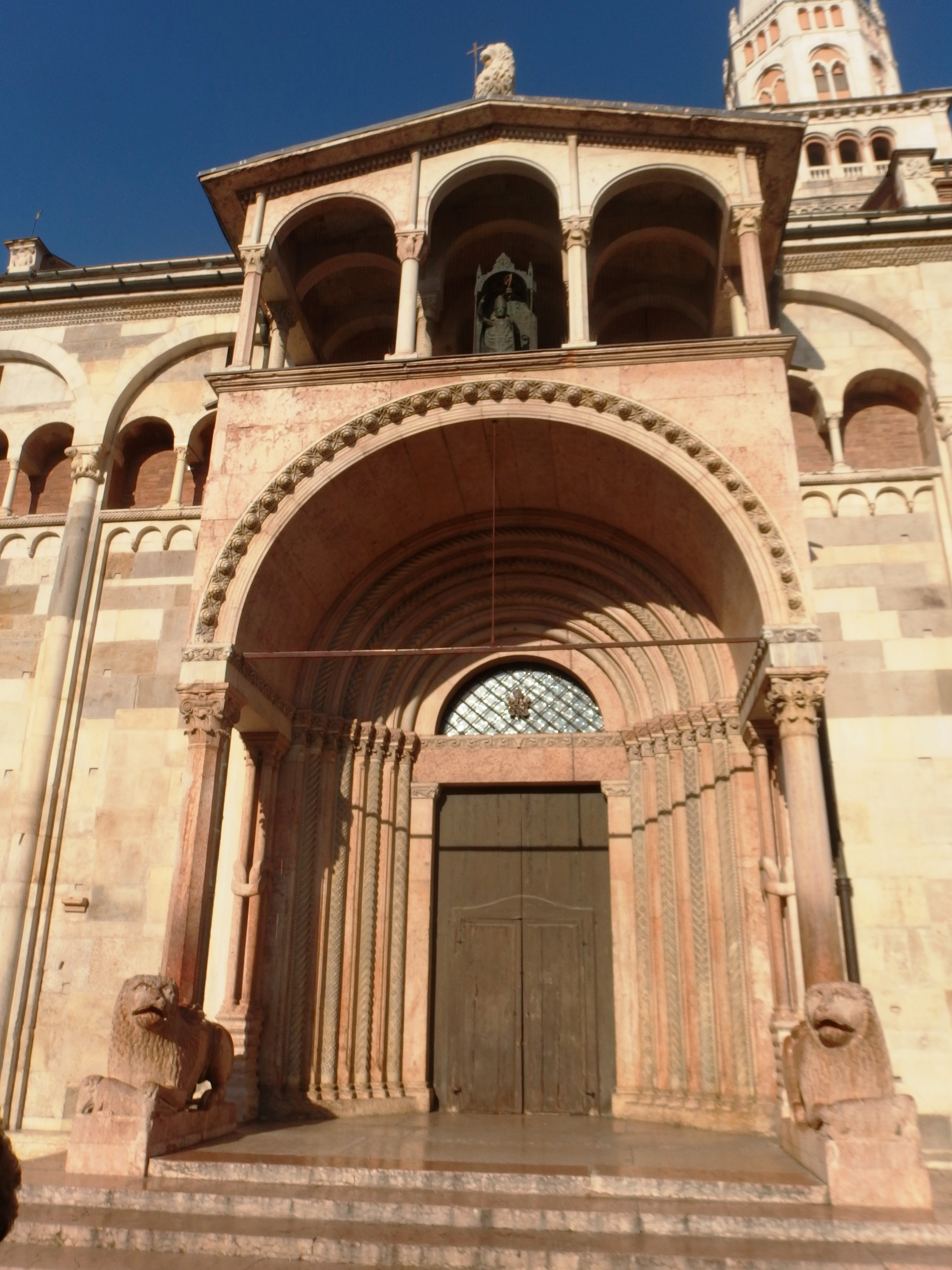 Modena, Italy. cathedral, Porta Regia Gate.